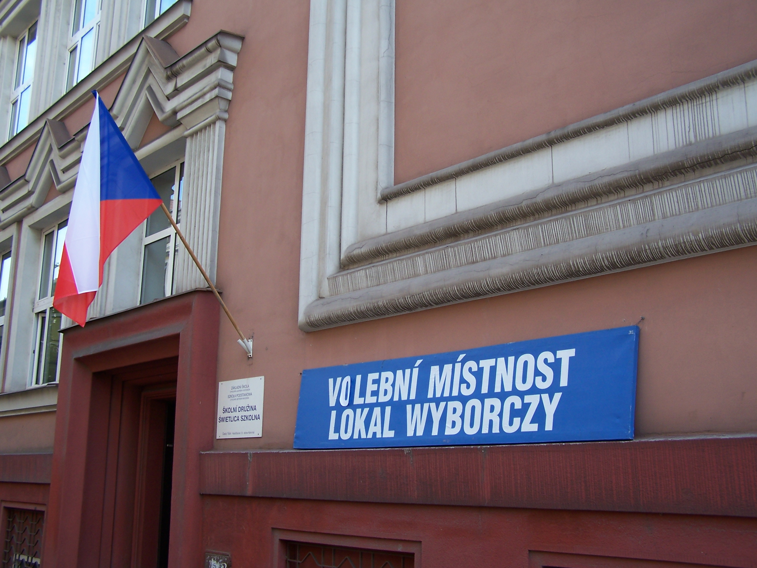 Czech and Polish bilingual signs during the 2006 municipal elections in Český Těšín (Czeski Cieszyn), Czech Republic